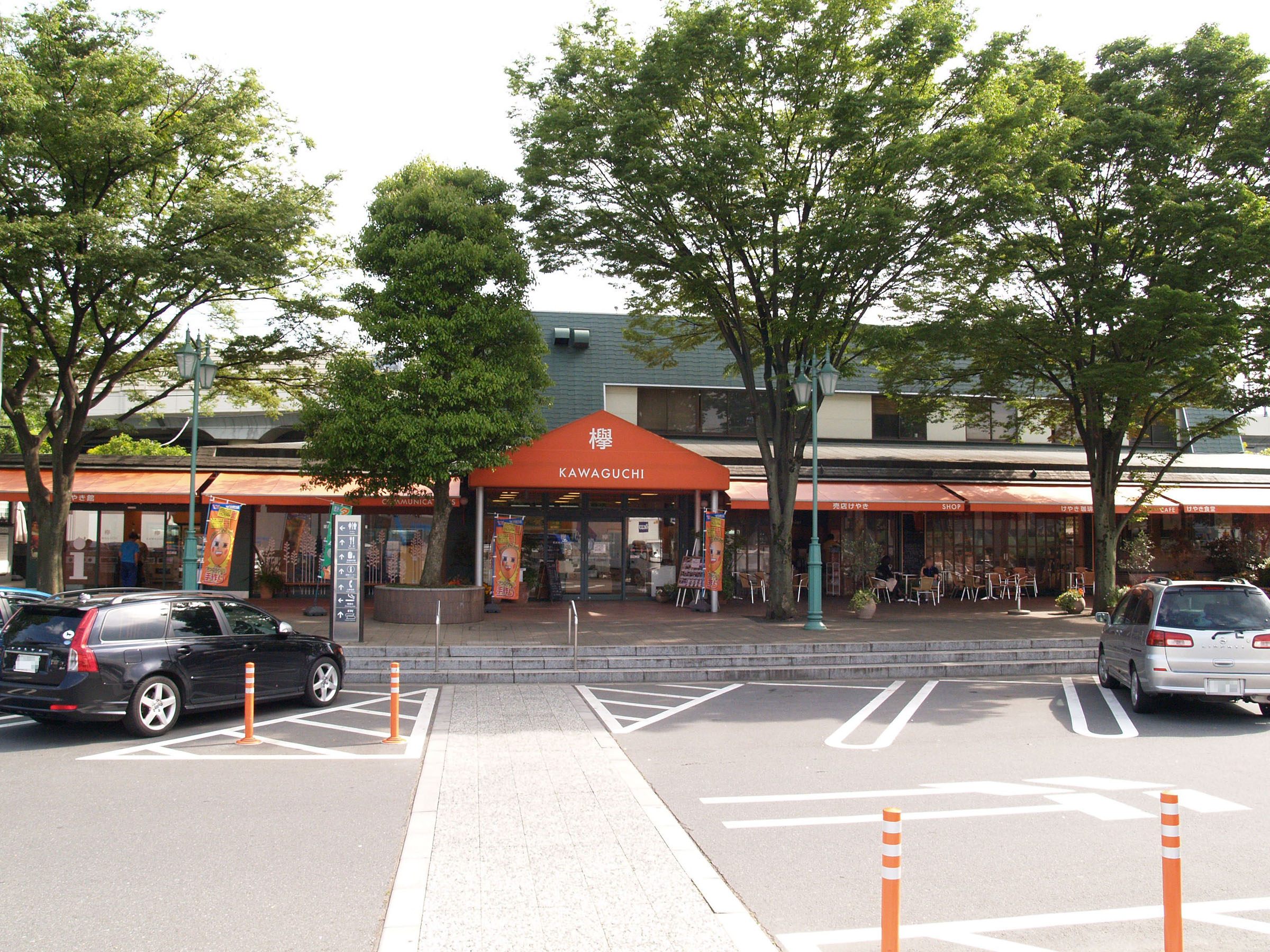 Kawaguchi Parking Area